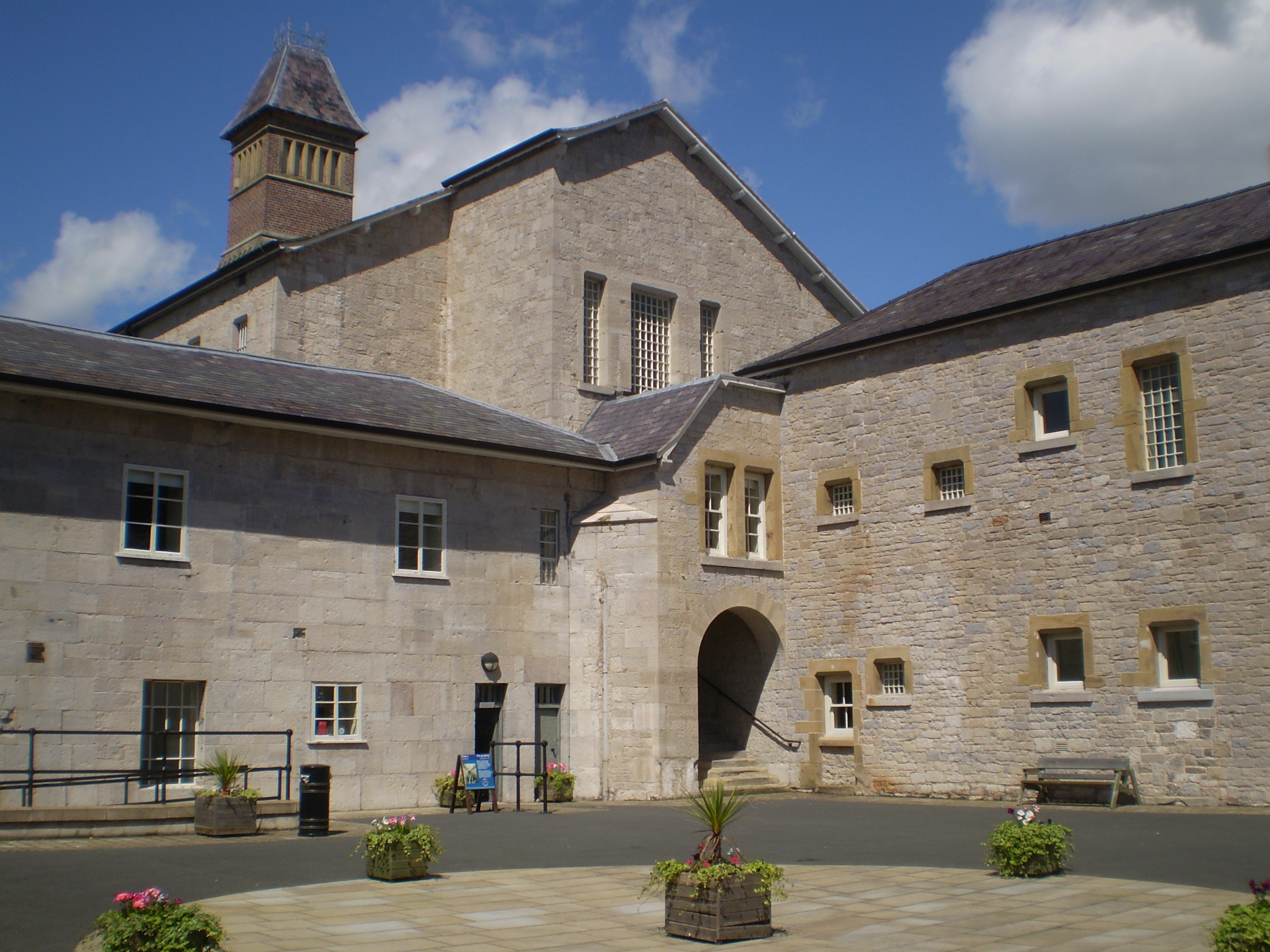 View of the courtyard of Ruthin Gaol museum, Ruthin, Denbighshire, north Wales